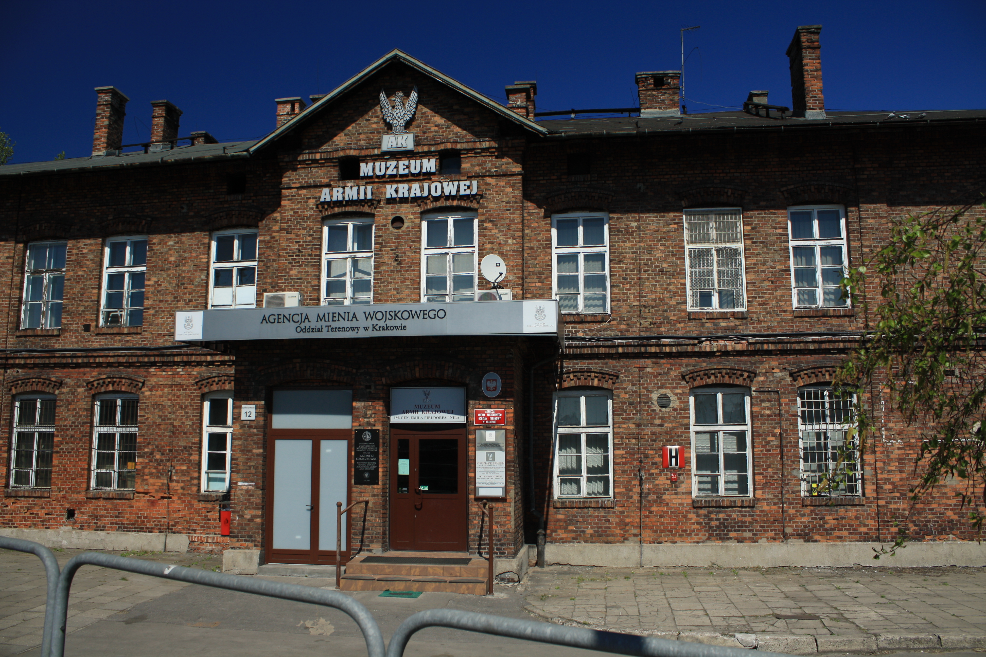 Armia Krajowa Museum in Kraków